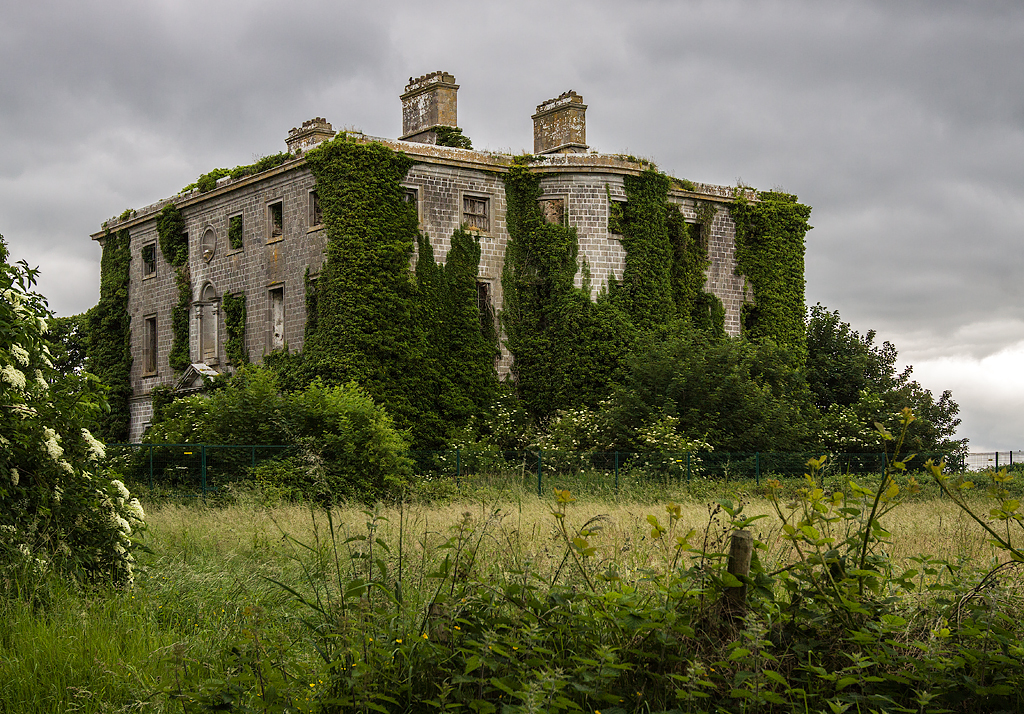 A photo of Tudenham House, an abandoned mansion located near Mullingar, County Westmeath in Ireland.